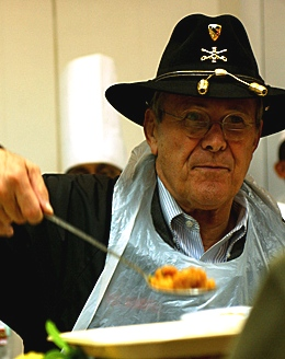 Secretary of Defense Donald Rumsfeld serves Christmas Eve chow to soldiers of the 1st Cavalry Division deployed to Baghdad. Three hundred troops enjoyed a steak and shrimp dinner. Later, Rumsfeld addressed the crowd, thanking them for their service and sacrifice.